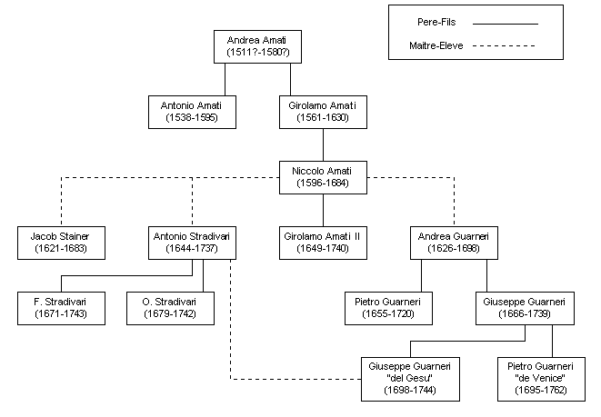 The chart shows the relation between Cremona's principal violin makers of the 16th, 17th and 18th centuries. The links show master–student relationships, and often include a father–son pairing.